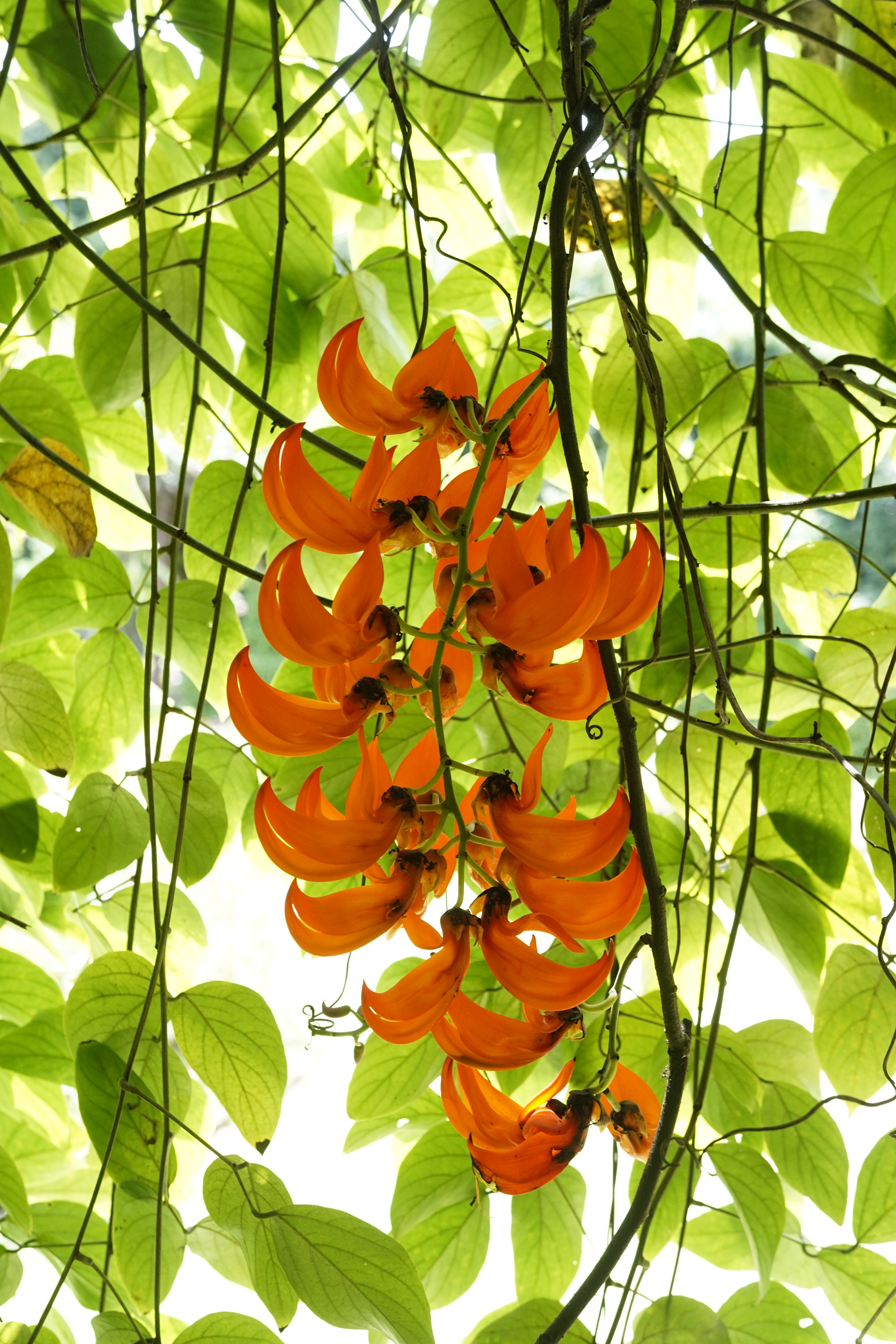 Mucuna bennettii @ Nilambur botanical garden